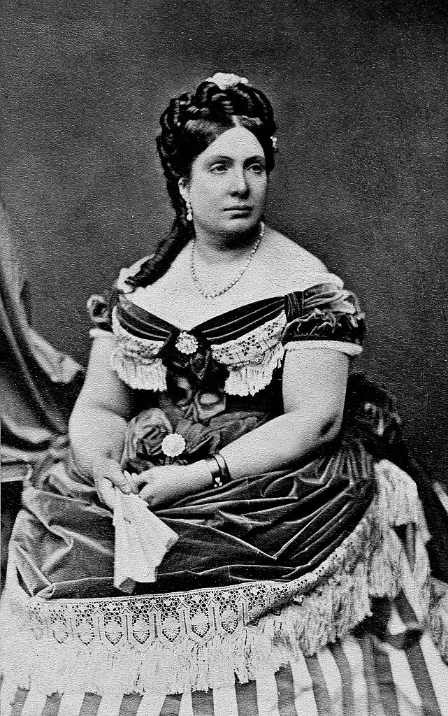 Queen Isabella II of Spain (1830-1904)